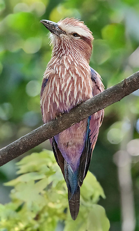 Rufous-crowned Roller